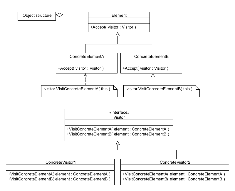 UML diagram for Visitor design pattern